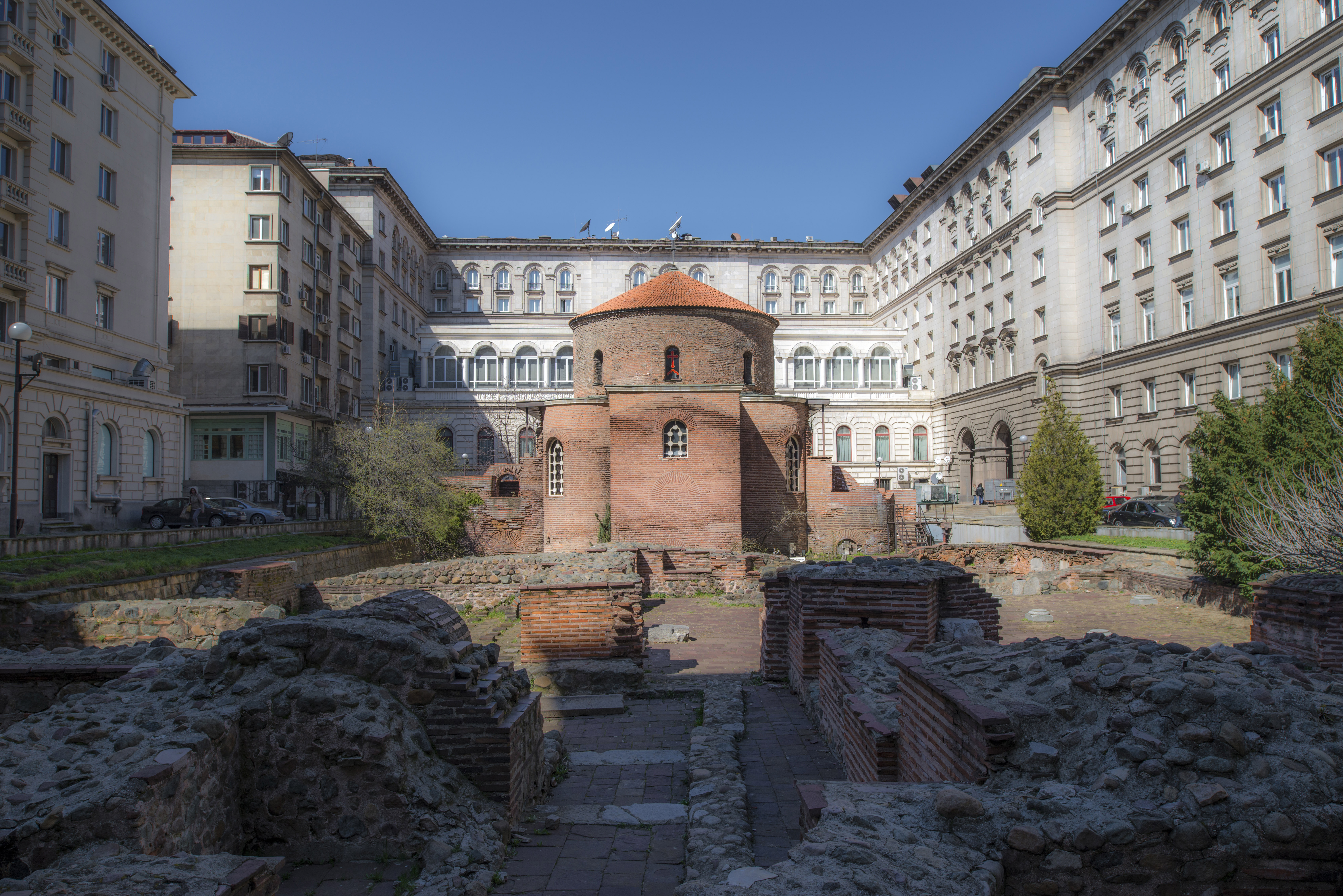 Share Bulgaria